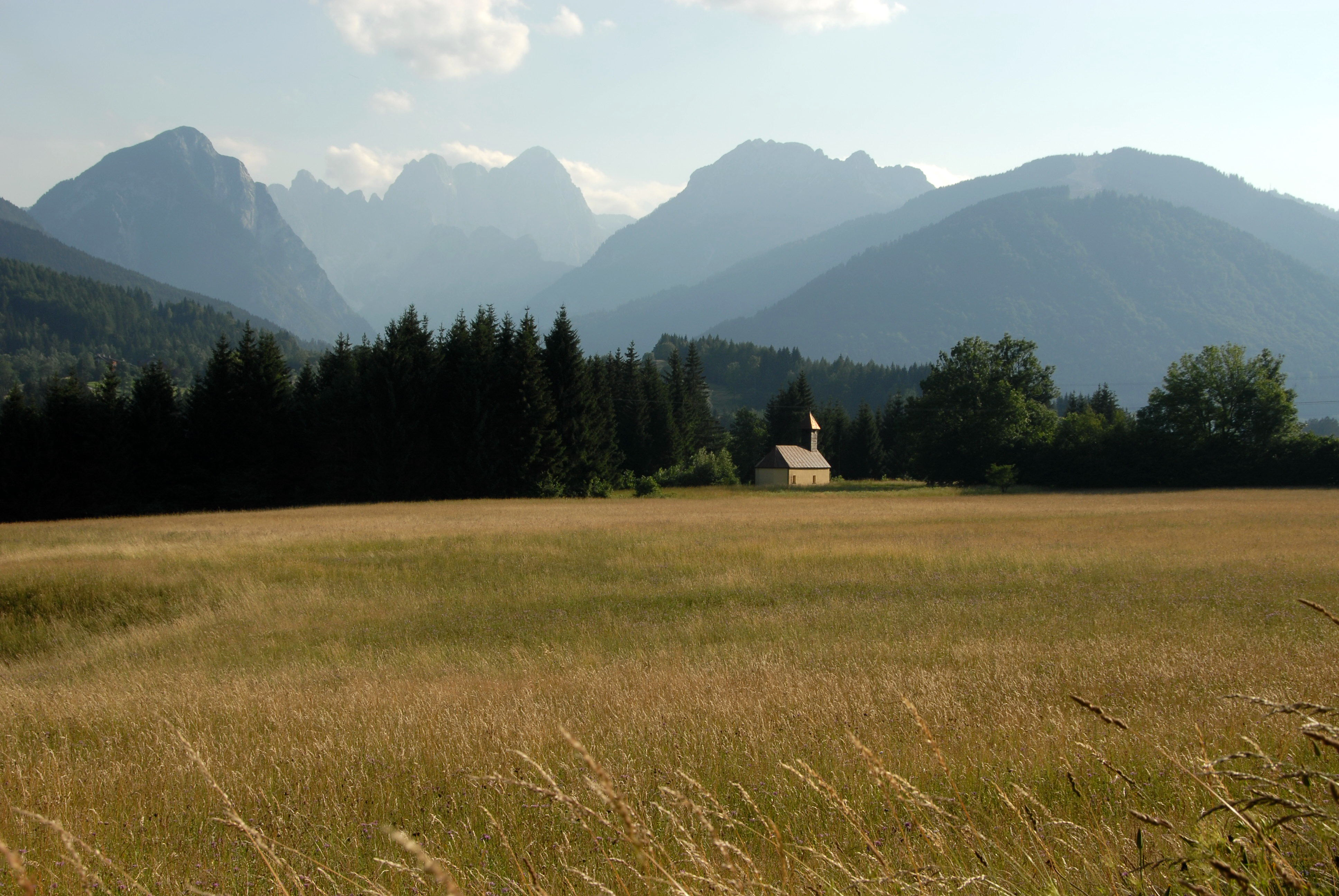 Oltreaqua-San Antonio at the locality Rutte grande in the communitiy Tarvisio, region Friuli Venezia-Giulia, Italy.